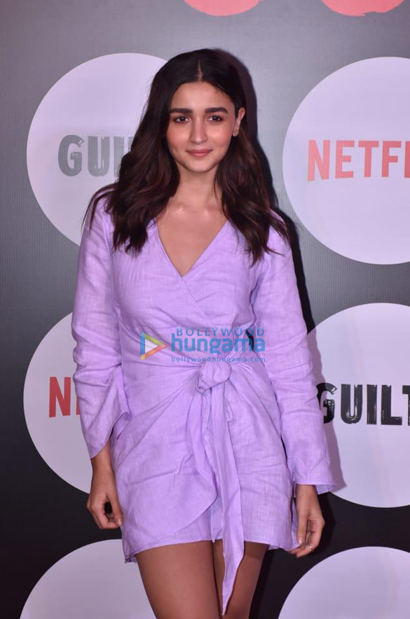 Alia Bhatt grace the screening of Netflix’s film Guilty